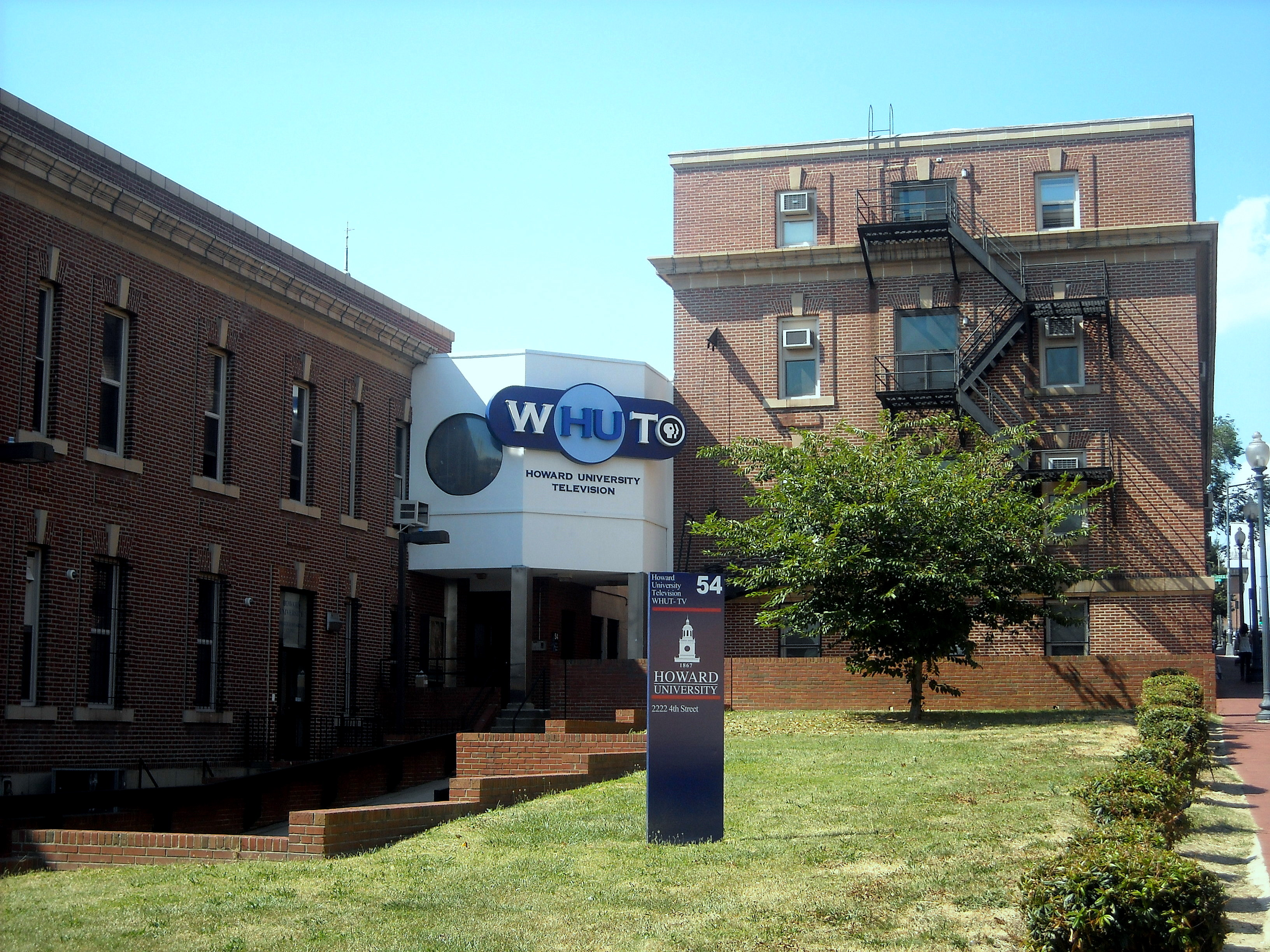 WHUT-TV station, a PBS television affiliate, located at 2222 4th Street, NW in the Bloomingdale neighborhood of Washington, D.C. The station is owned and operated by Howard University.